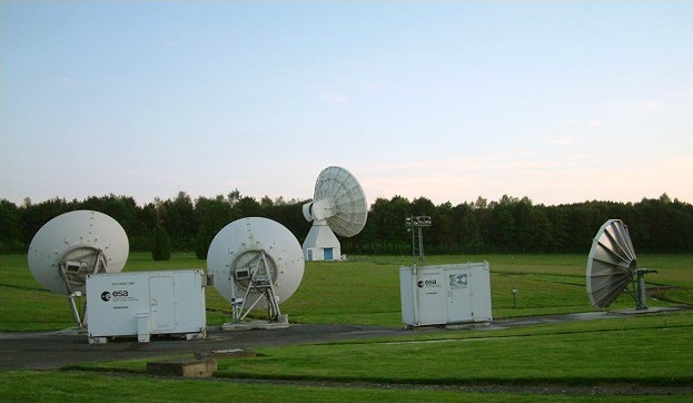 ESA Earth station Redu, Belgium Related pictures: Image:Redu135cassegrp.jpg image:redu135cassefrp.jpg image:estrackredurp.jpg Own photograph